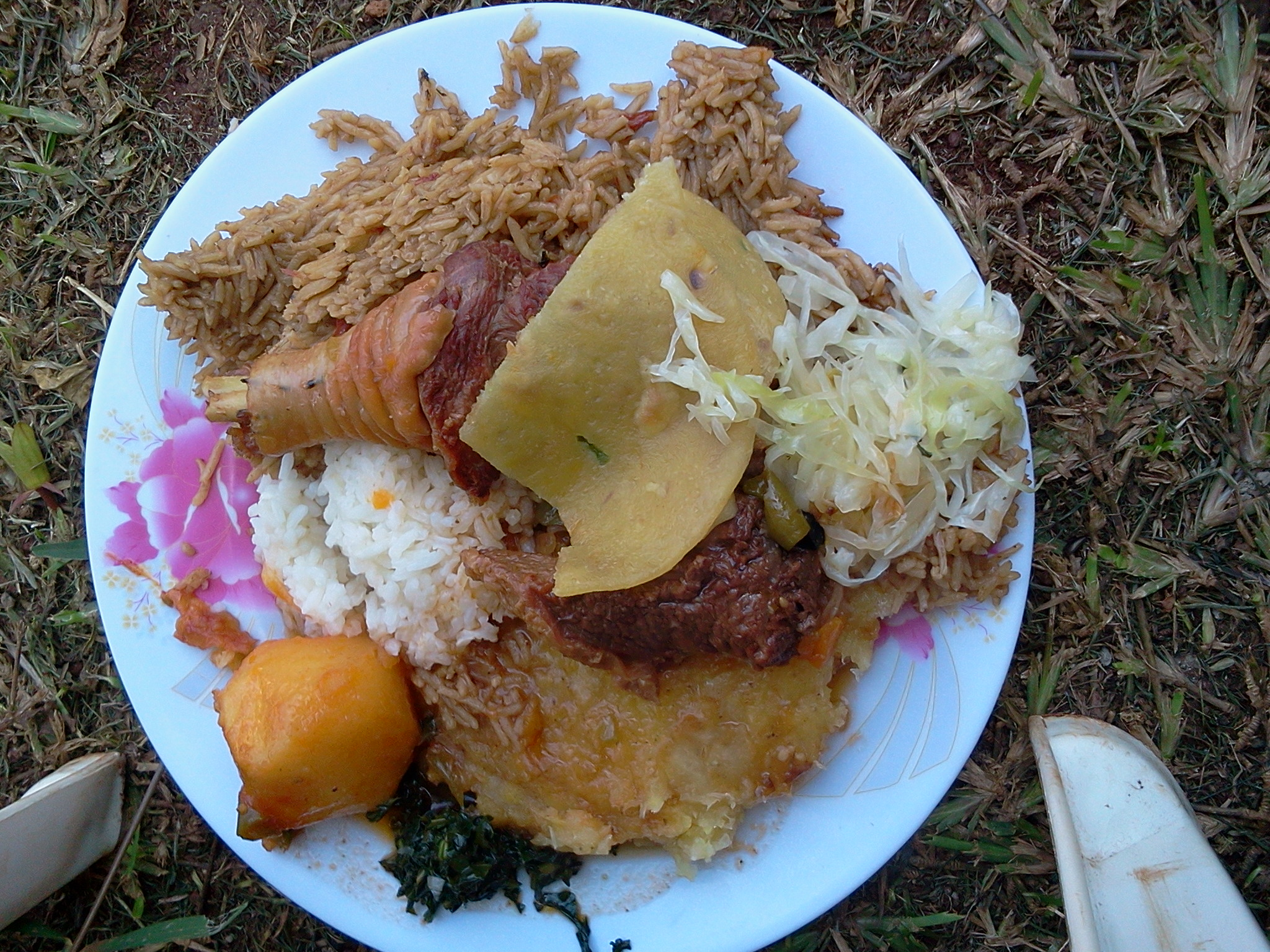 2013 edd celebration This is an image of food from Uganda